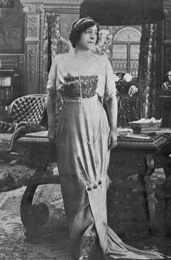 Postcard photo of actress Lillie Langtry in the 1913 film His Neighbor's Wife.